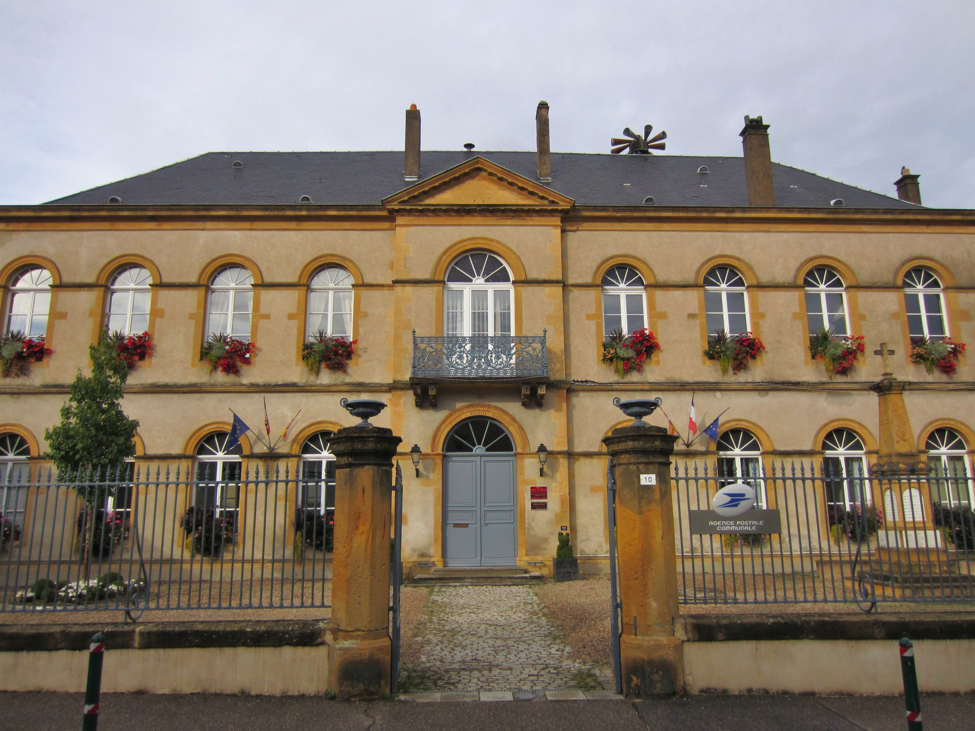 Description mairie Ancy Moselle Date12 September 2011Sourcemon appareil photoAuthorAimelaimePermission(Reusing this file) mairie Ancy Moselle